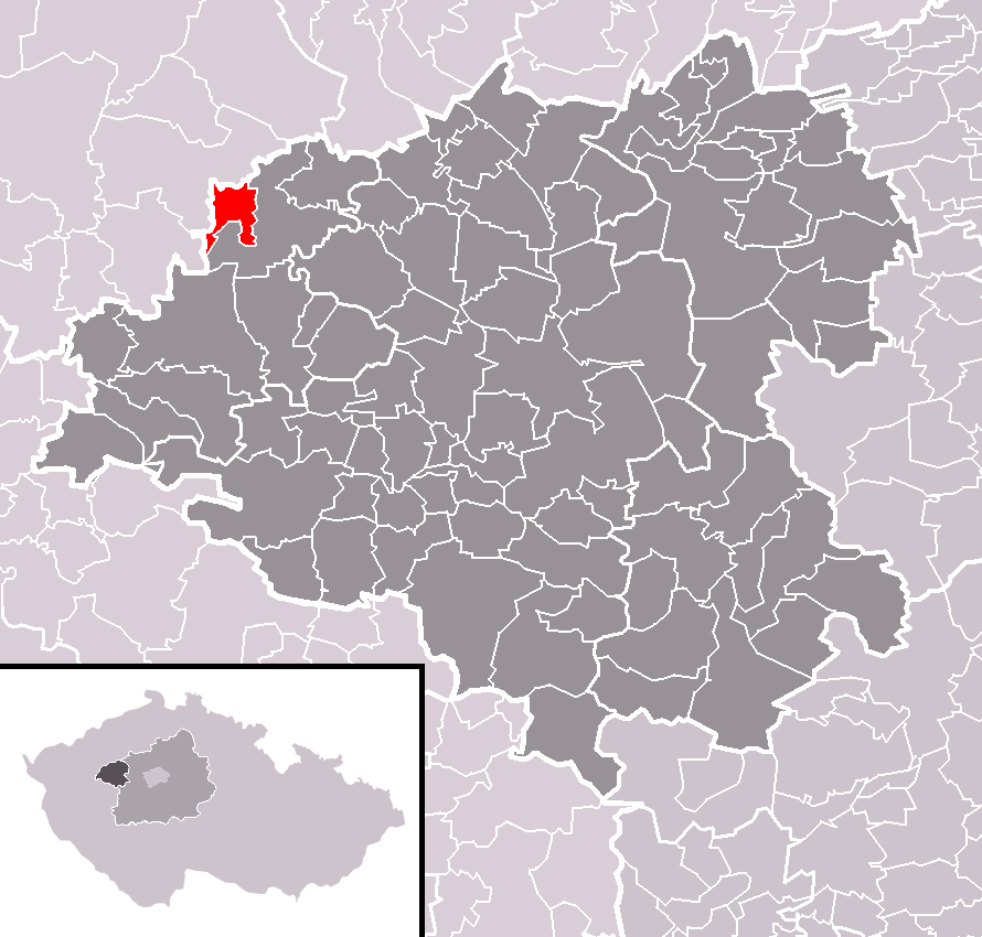 Location of Kolešov municipality within Rakovník District and (identical) administrative area of Rakovník as a Municipality with Extended Competence.